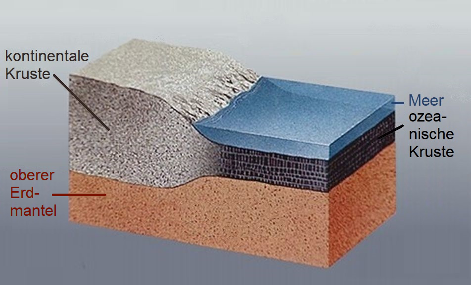 Graphic of the earth's ontinental and oceanic crust